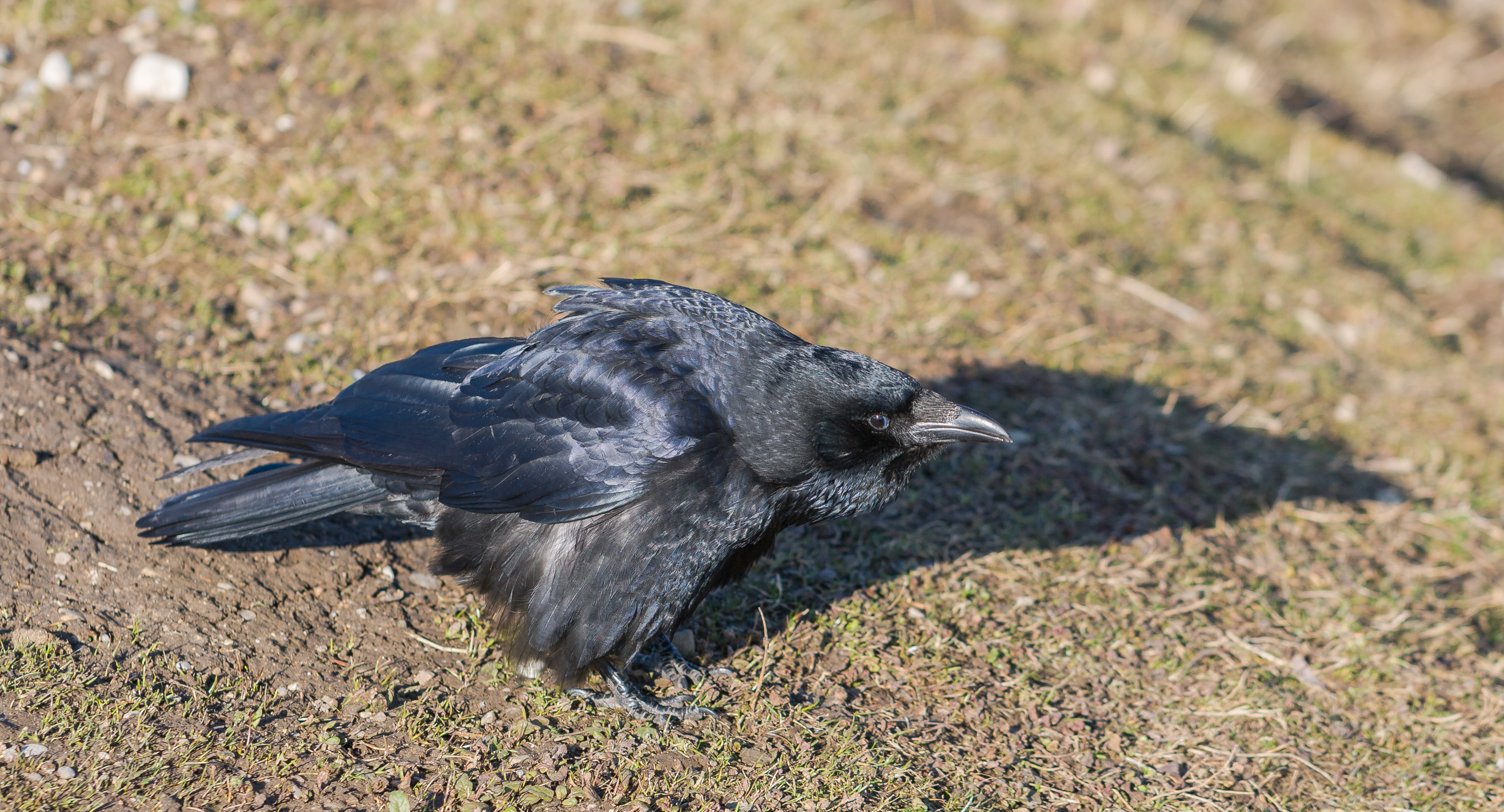 Crow (Corvus corax), Nymphenburg Palace, Munich, Germany